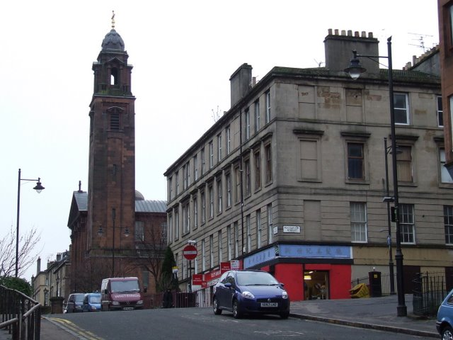 Rose Street With St Aloysius RC Church in the background. Buccleuch Street runs to the right.